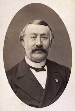 Danish stockbroker, businessman, and politician Isaac Wulff Heyman (1818-1884)